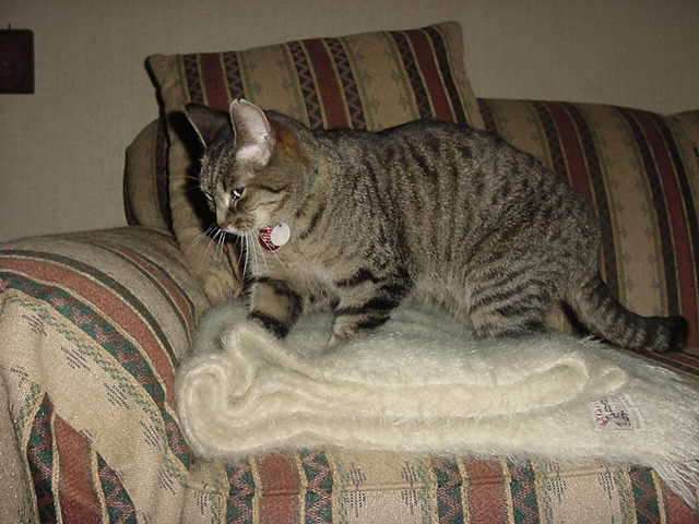 Feather, the cat, purring and kneading her favorite blanket prior to a nap.